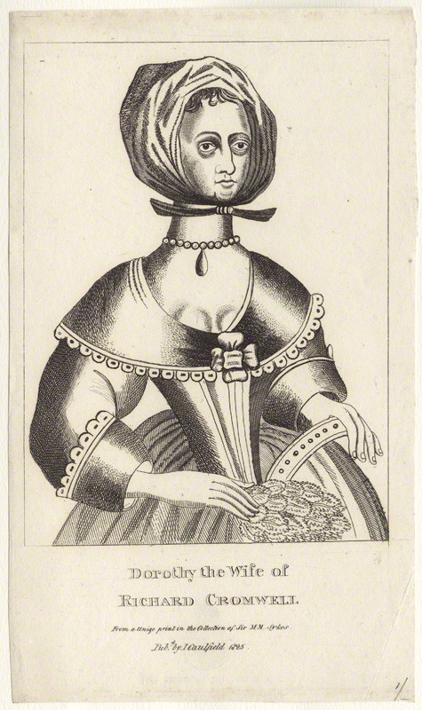 Dorothy Maijor Cromwell, Lady Protectress of England, Scotland and Ireland